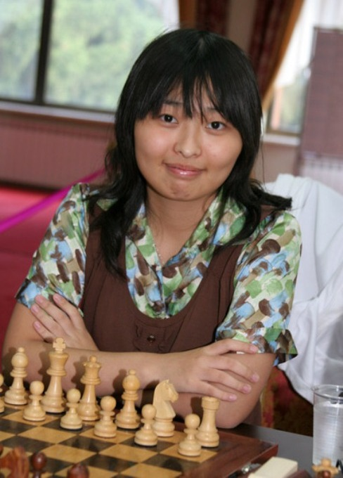 Chinese WGM Ju Wenjun at the Women World Chess Championship 2008 in Nalchik.